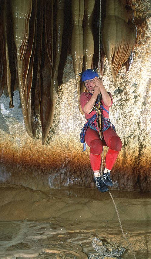 The frog ascending system. This is a sit-stand system using two ascenders, one just above the seat harness and another which rides above and has loops (one large as depicted here or two smaller ones) for the feet. It is also attached to the seat harness as a backup.